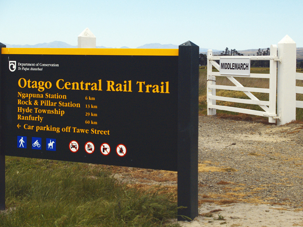 Sign-Board at the start point of Otago Central Rail Trail, Middlemarch, Otago, New Zealand